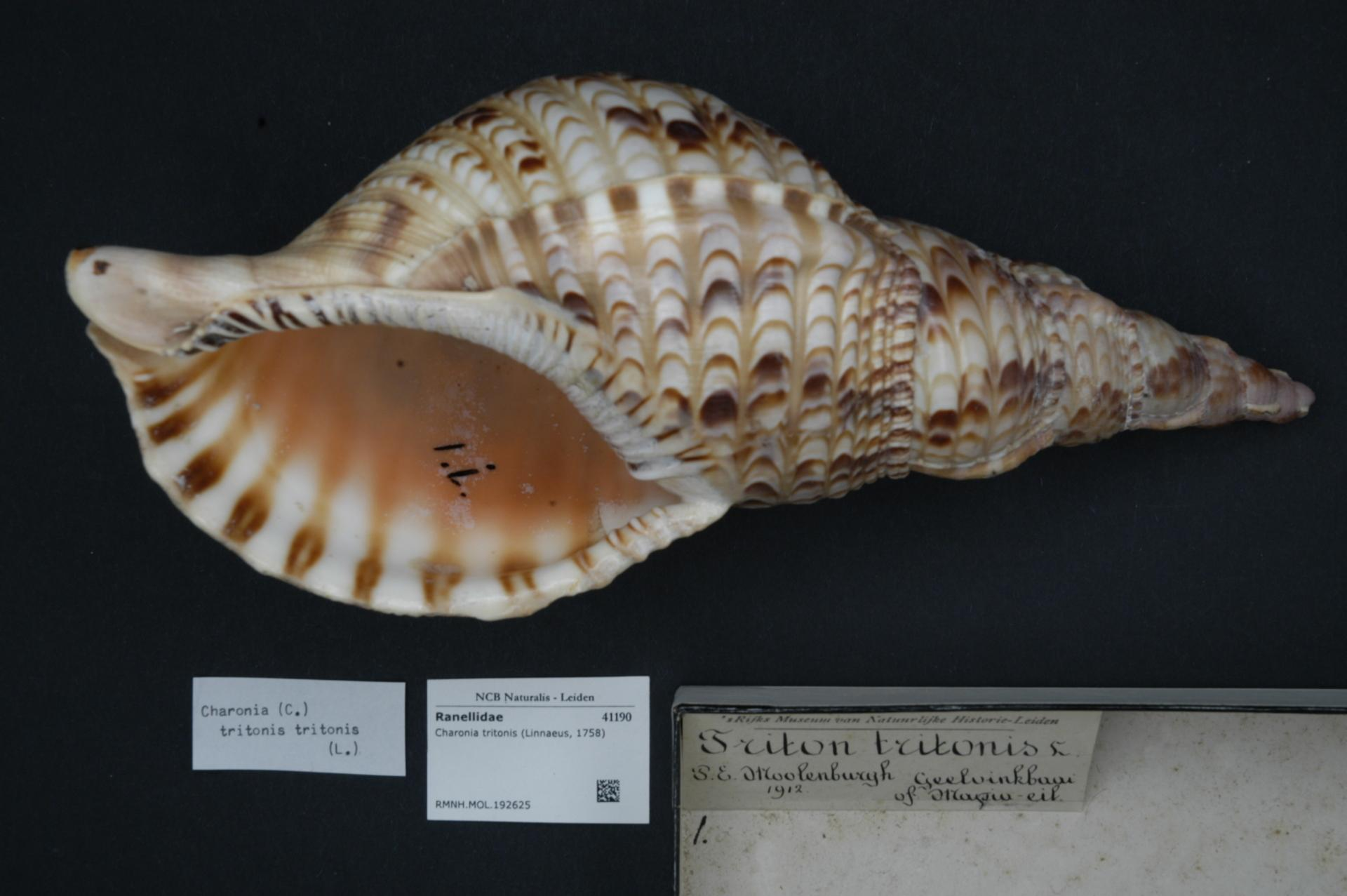 Charonia tritonis (Linnaeus, 1758)